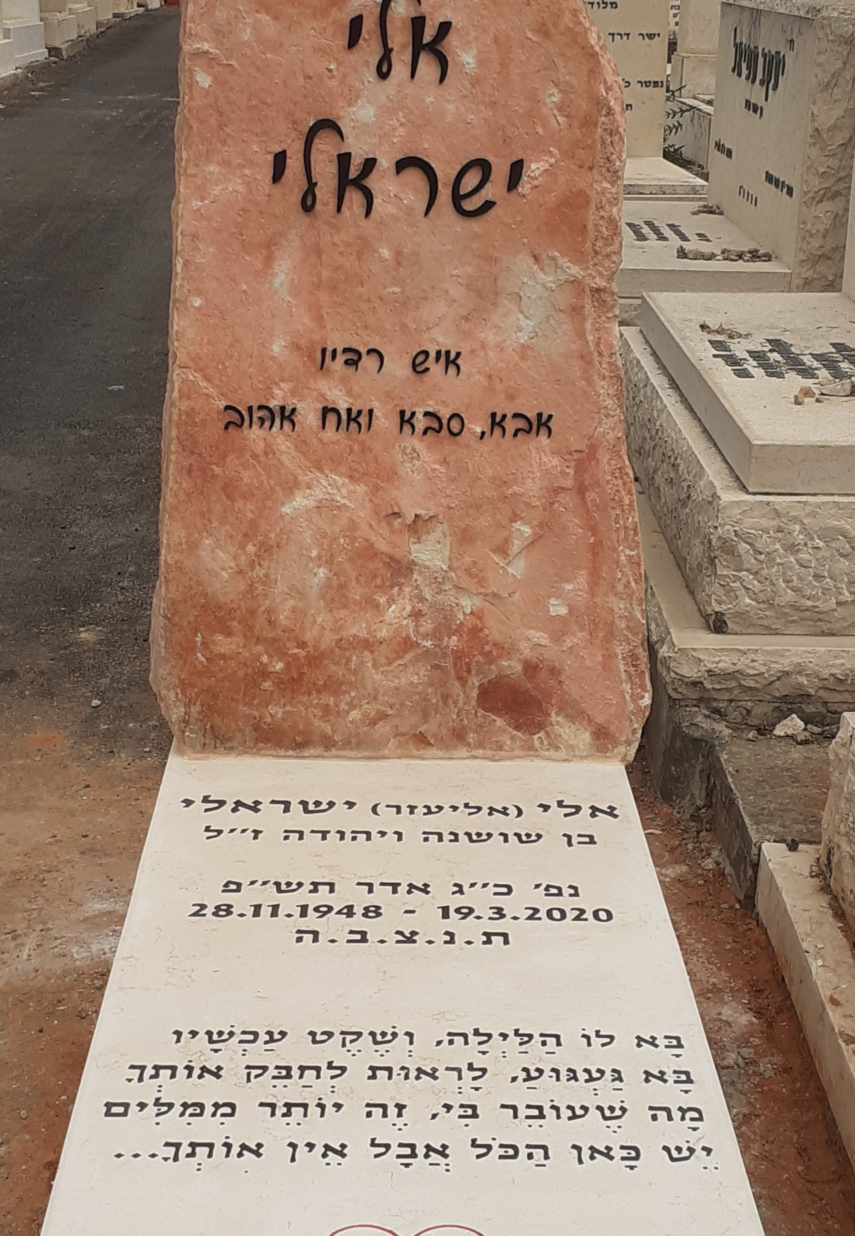 Gravestone of Eli Israeli